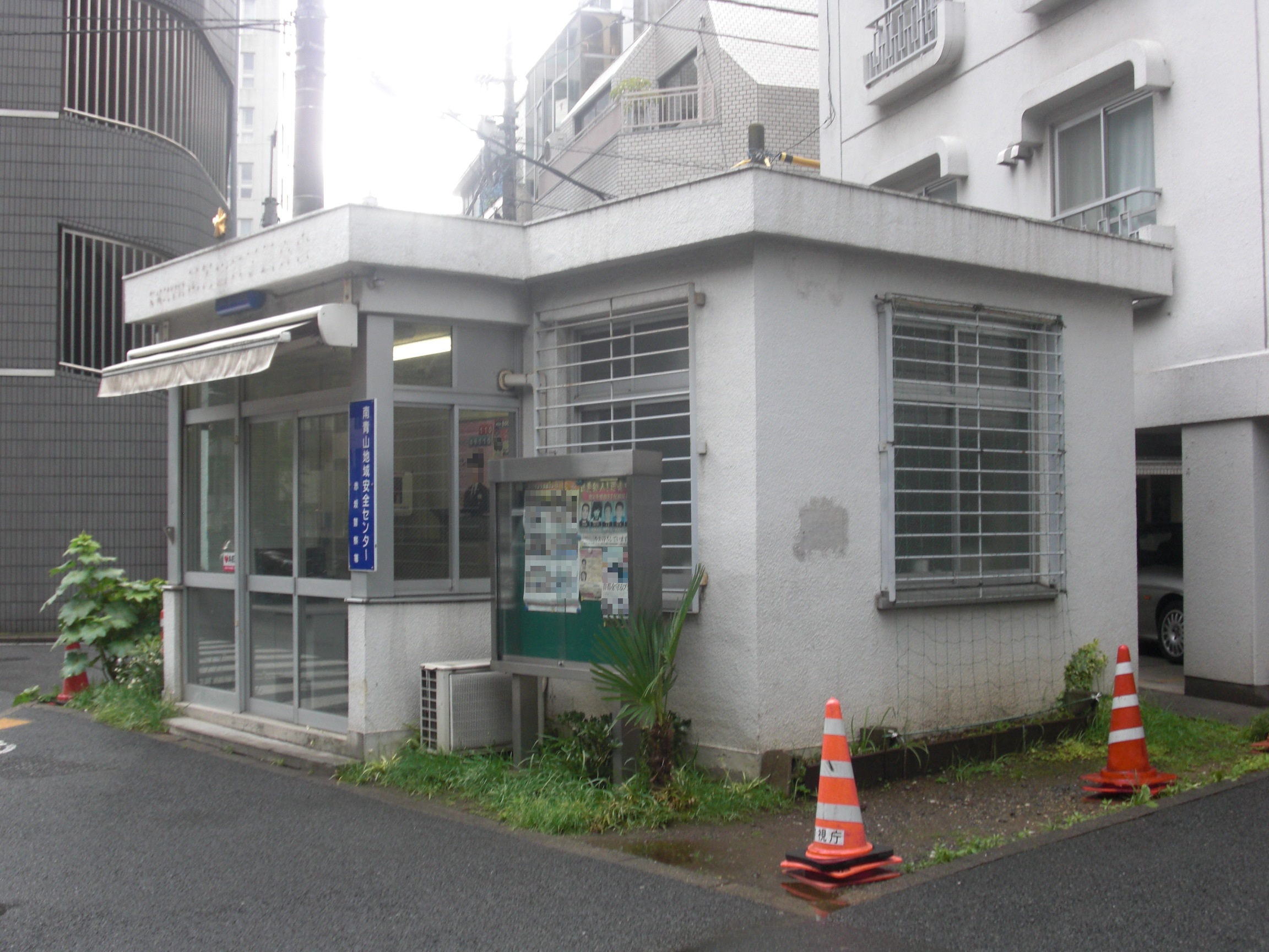 This is the Metropolitan Police Department Akasaka Police Minami-Aoyama Regional Safety Center in Tokyo, Japan.